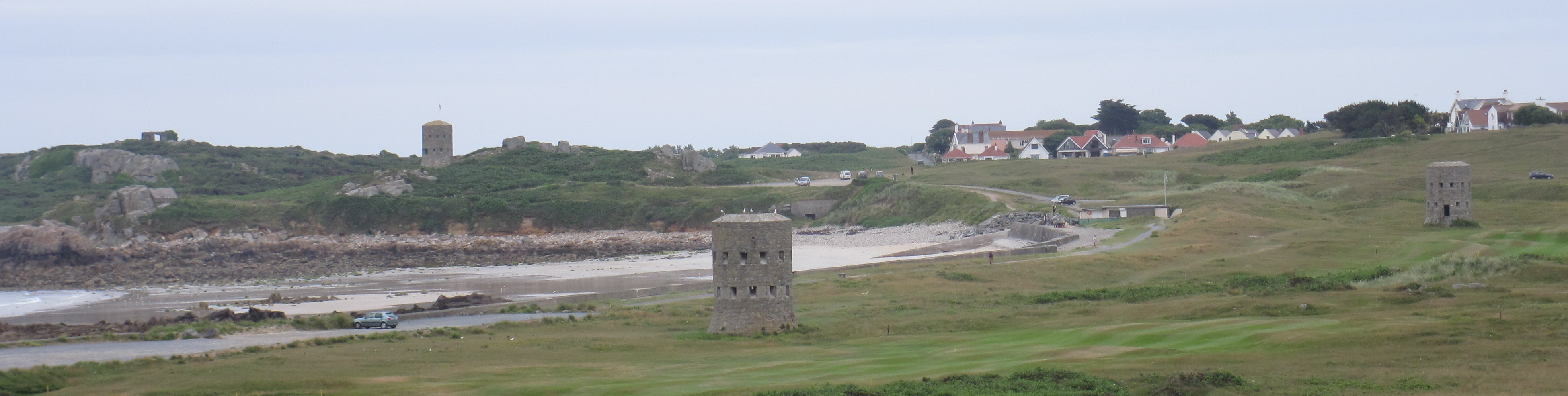 Guernsey, 2 July 2010